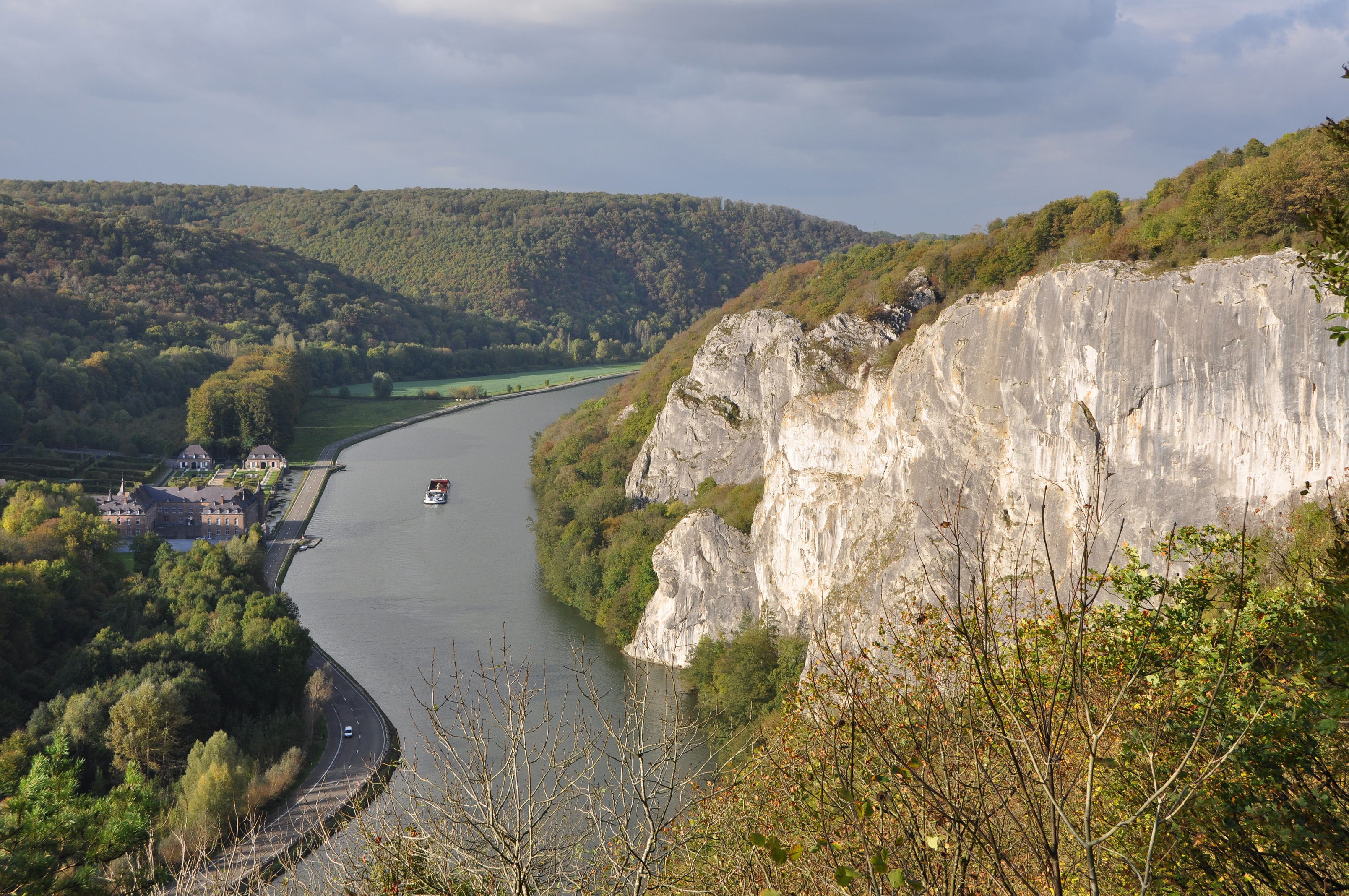 The Meuse south of Dinant (Belgium). Left: the castle of Freÿr (Hastière). Right: the Freÿr Rocks (Dinant).